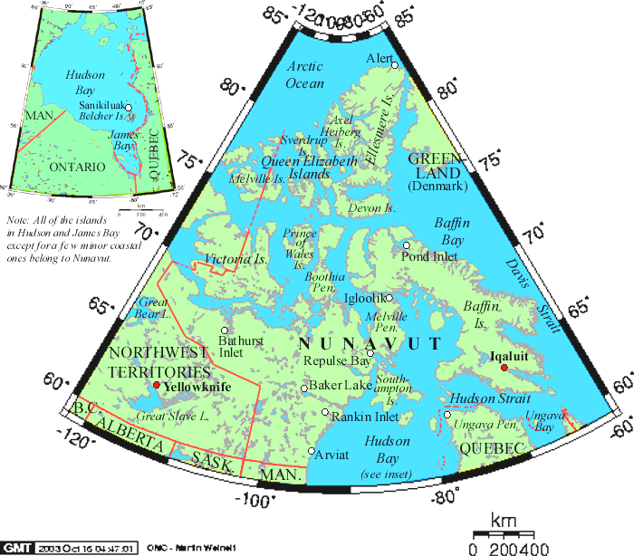 Map of Nunavut (created through Online Map Creation, public domain, and altered by Montrealais)